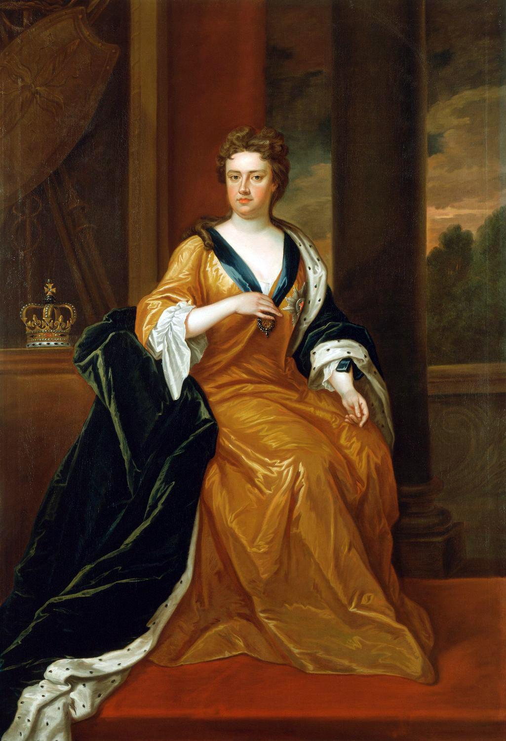 Caption from the museum's website Charles Jervas was born in King’s County, Ireland in 1675. By the mid-1690s he had moved to London, where he studied with Sir Godfrey Kneller for approximately one year. Following a sojourn on the continent where he acted as an agent for English collectors in Rome, Jervas returned to London in 1708, quickly establishing himself as a fashionable society portraitist. Some of his most accomplished portraits are of Anne, Countess of Sunderland (private coll.) and the author Jonathan Swift (National Portrait Gallery, London). With the help of his most influential patron, the Prime Minister Sir Robert Walpole, Jervas was appointed Principal Painter to the King in 1723, painting coronation portraits of George II and Queen Caroline (Guildhall Art Gallery) as well as the young Prince William, Duke of Cumberland (NPG). This post Jervas held for the remainder of his life. Jervas’ portrait of Queen Anne is based on a version of Sir Godfrey Kneller’s state portrait, the finest example of which is held at Wrest Park, signed and dated 1705. It appears that the Queen herself did not own a version of her own state portrait, and this particular version was commissioned by Queen Caroline. Caroline was fascinated with ancestry, and this portrait was originally displayed as part of a series of British royal portraits in the Queen’s Gallery at Kensington.